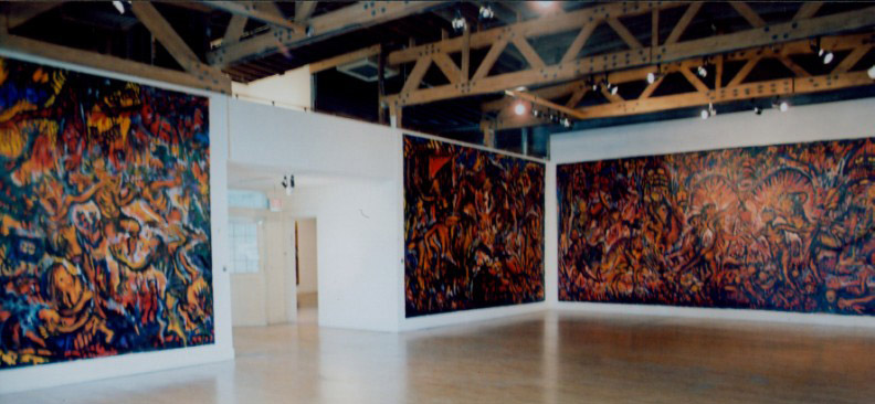 A view from Kanso's exhibition The Split of Life, Nexus Contemporary Art Center, Atlanta